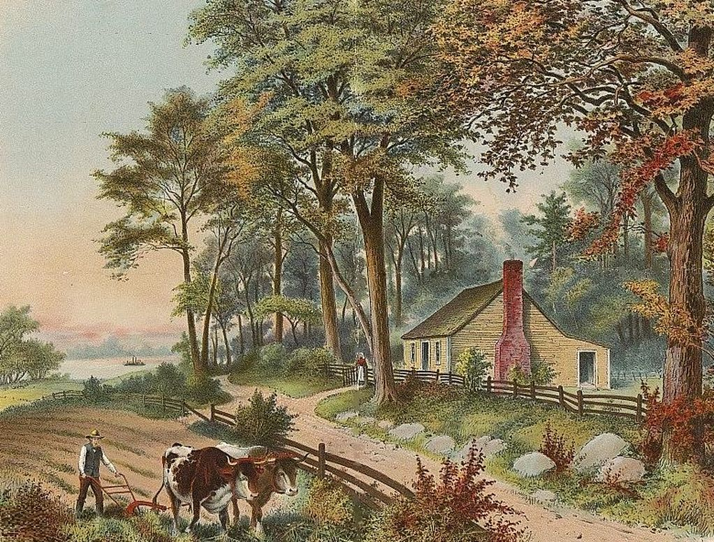 Color drawing of Birthplace of Ulysses S. Grant, cropped version